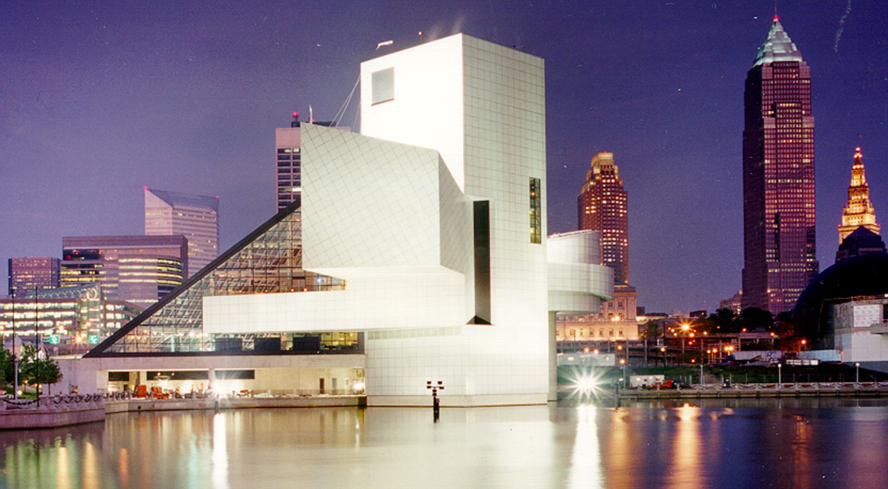 Rock and Roll Hall of Fame